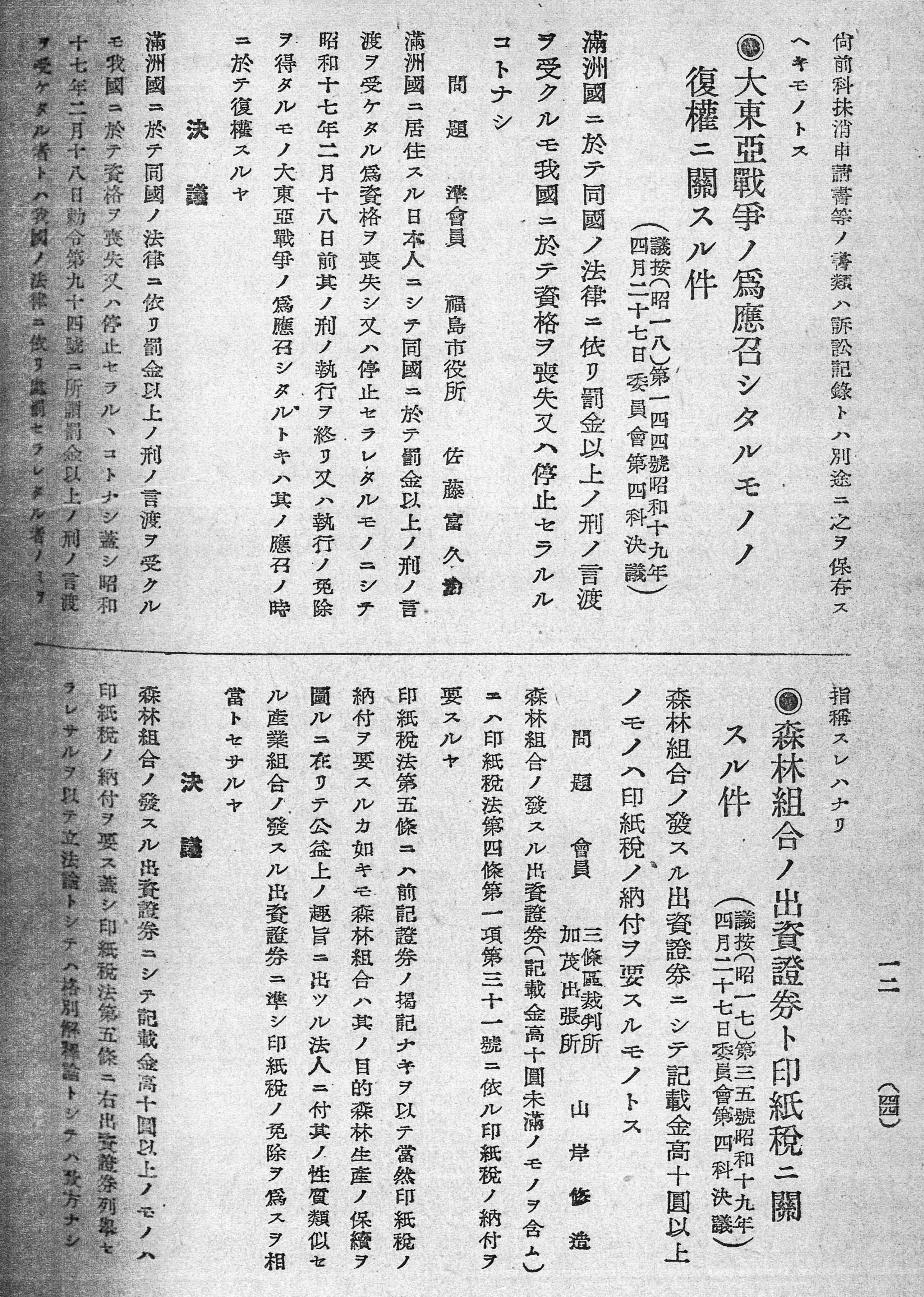 In 1944, Japanese Lawyers Association decided to dismiss qualification deprivation on officers in Manchuria who was charged fine, in exchange for his attaching to Japanese military service.